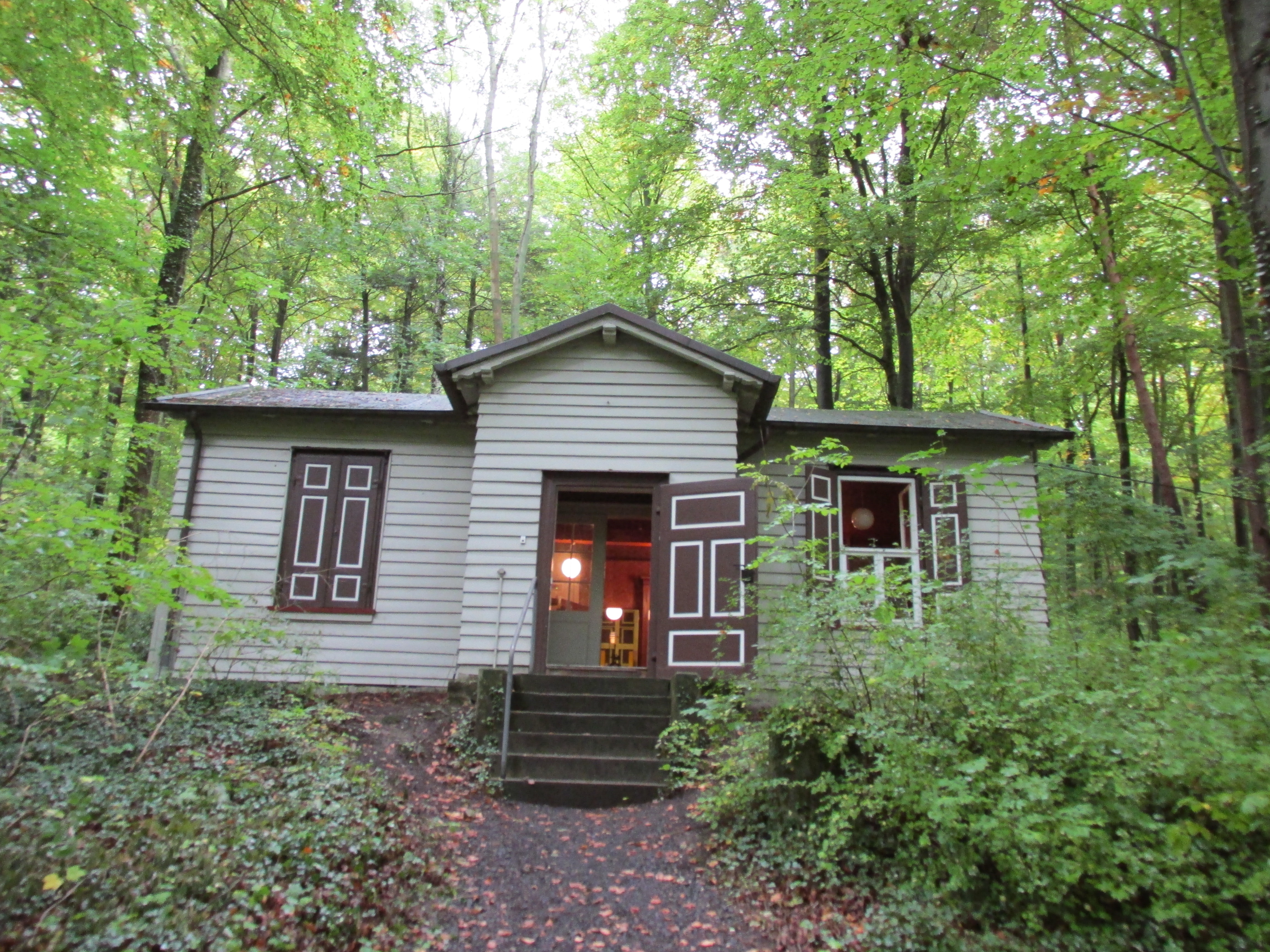 Gaußhaus at Wiechert’sche Erdbebenwarte, Göttingen, Germany check usage